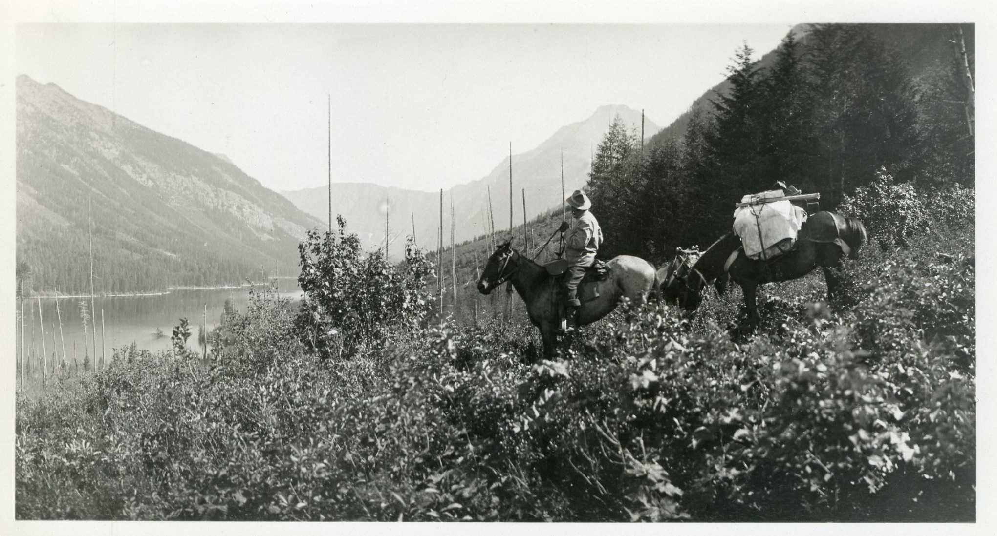 Alone With the Past